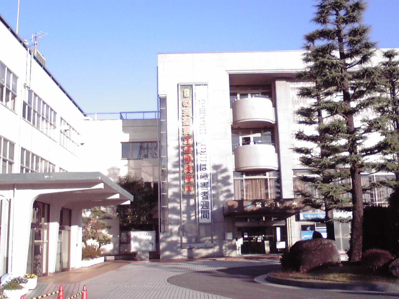 This is the Joso City Government in Ibaraki, Japan.